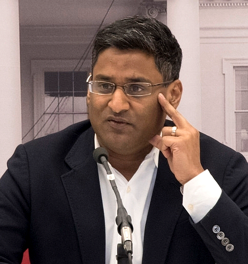 U.S. political commentator Ramesh Ponnuru discusses politics at the U.S. embassy in Vienna in January 2016.